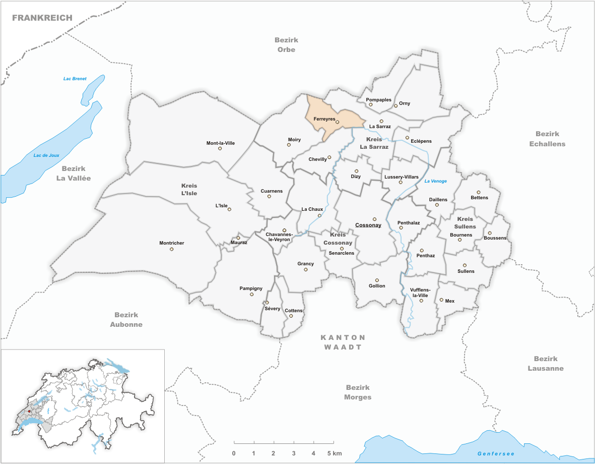 Municipality Ferreyres